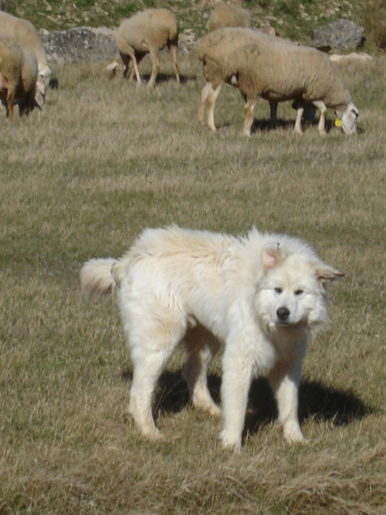 A Pyreneean Mountain Dog (aka Great Pyrenees) acting as a livestock guardian dog with a flock of sheep.